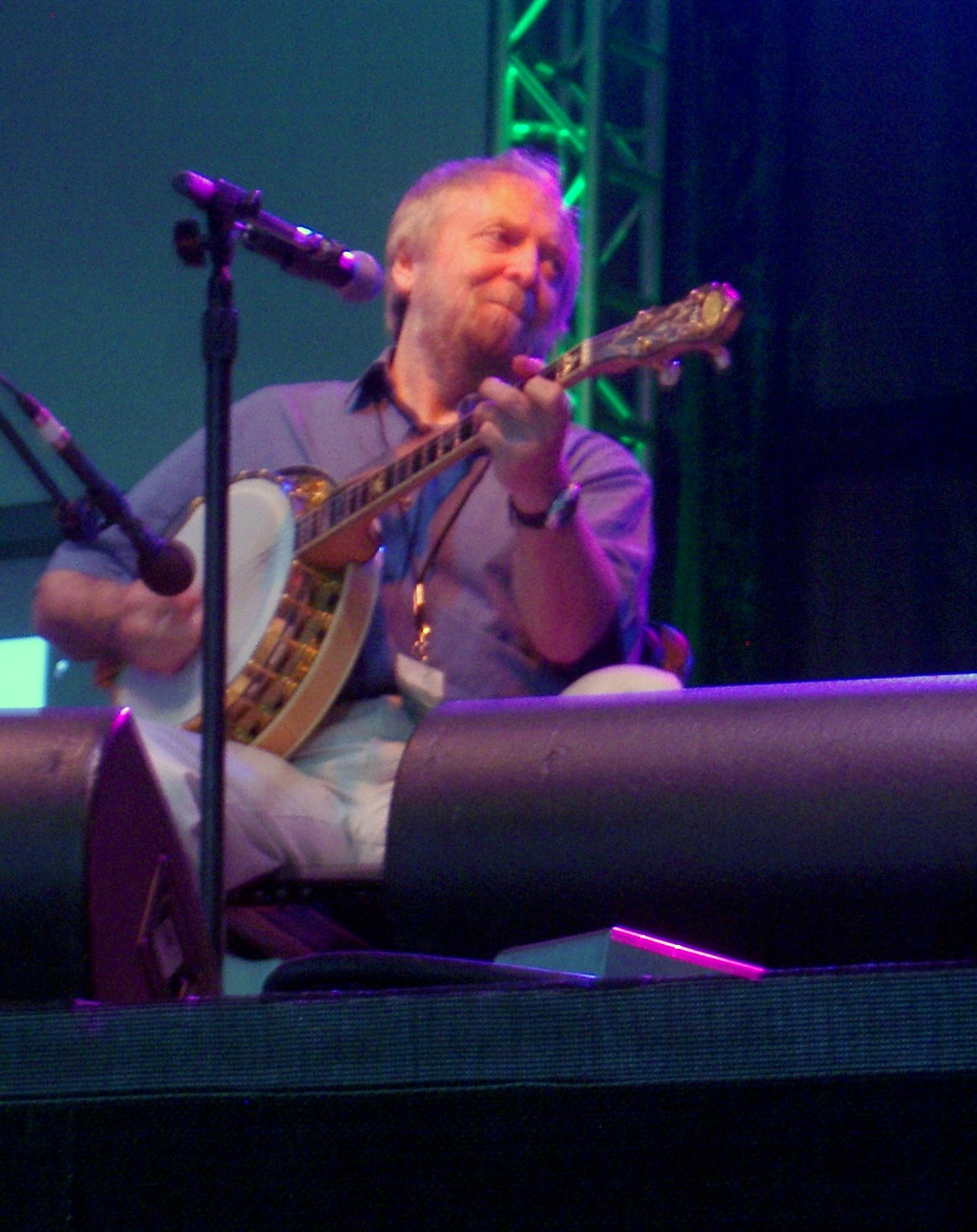 Mick Moloney playing at the 2006 Dublin Irish Festival.